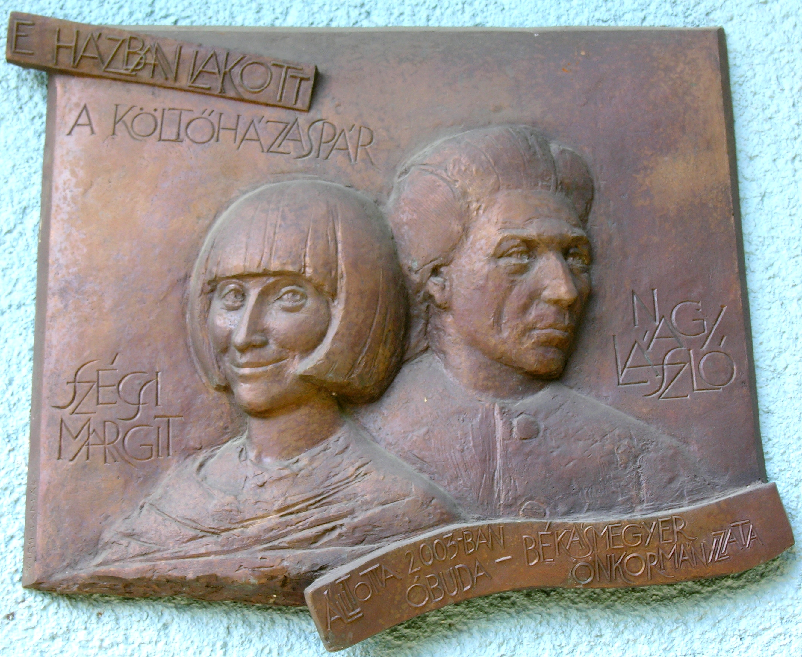 Commemorative plaque to Mr. László Nagy (1925–1978) Hungarian poet and translator and his wife Mrs. Margit Szécsi (1928-1990) poet and graphic artist. It is fixed on the front of their former domicile in 2003. Author of the bronz relief is Mr. Tamás Vígh. (Budapest, District III, Avenue Árpád fejedelem Nr 66).